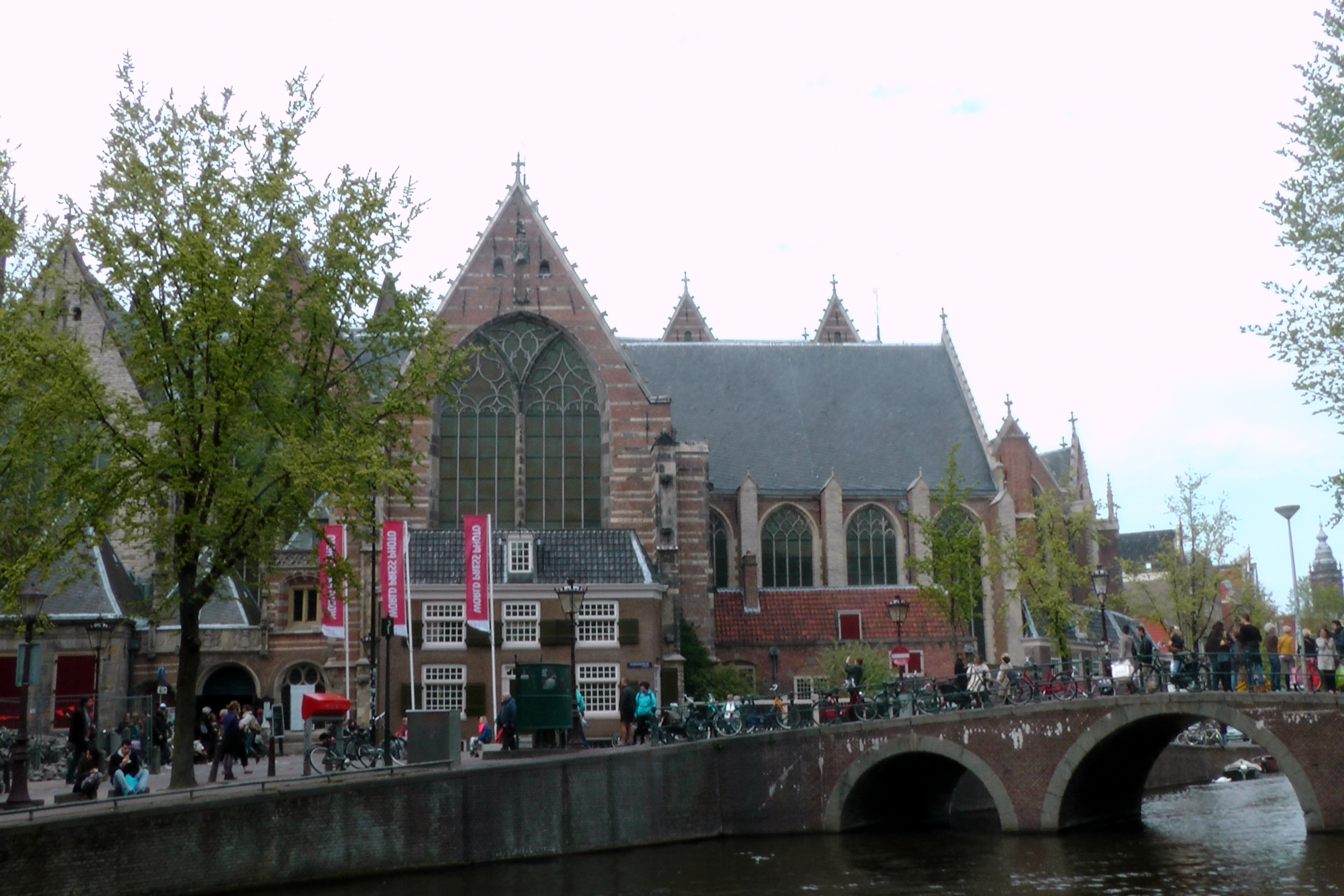 World Press Photo Exhibition, Oude Kerk, Amsterdam, April 2013 - Photo by Pejman Akbarzadeh / Persian Dutch Network